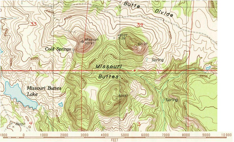 Modified from USGS Missouri Buttes 7.5' Quad, NE corner with scale